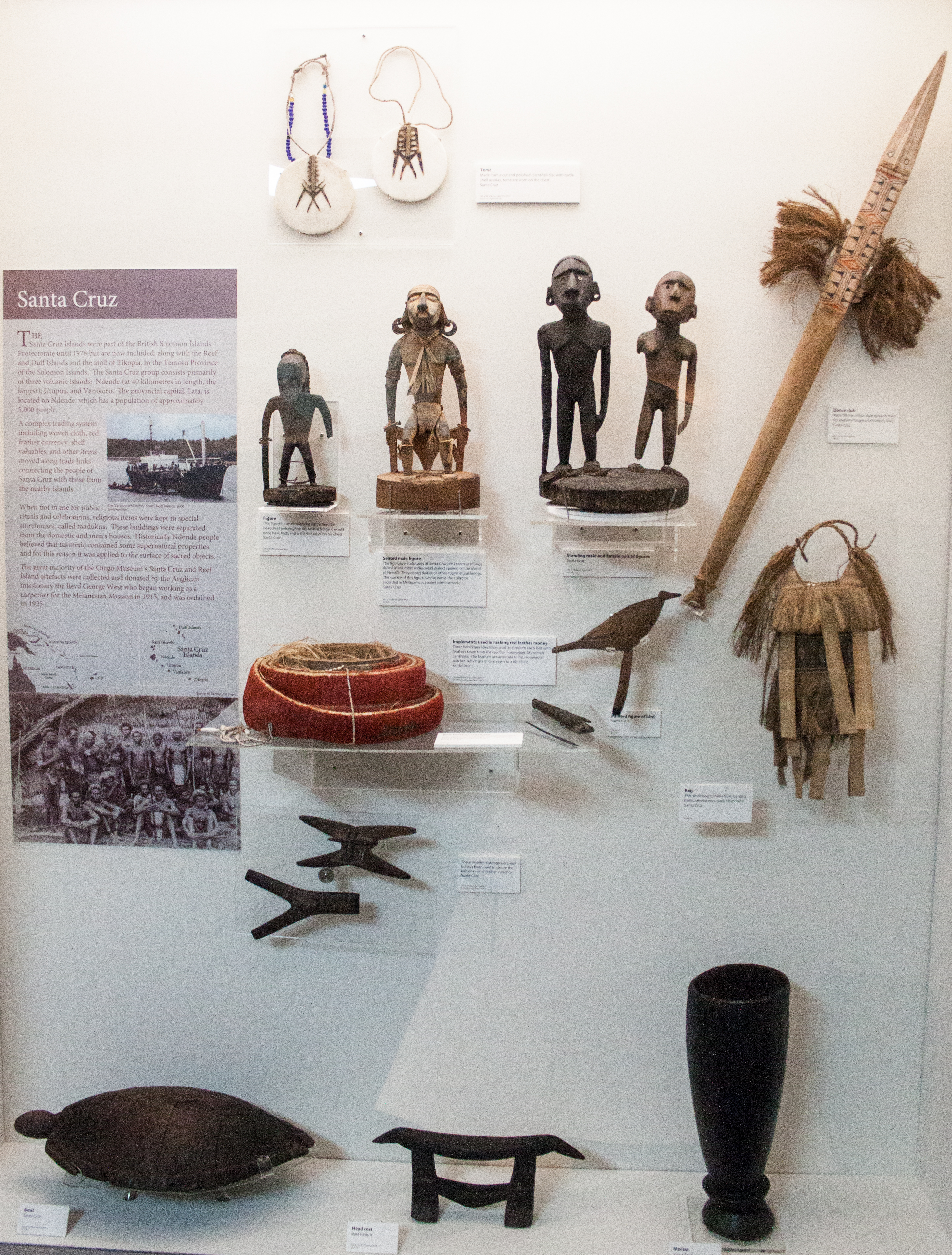 Objects from Santa Cruz Islands